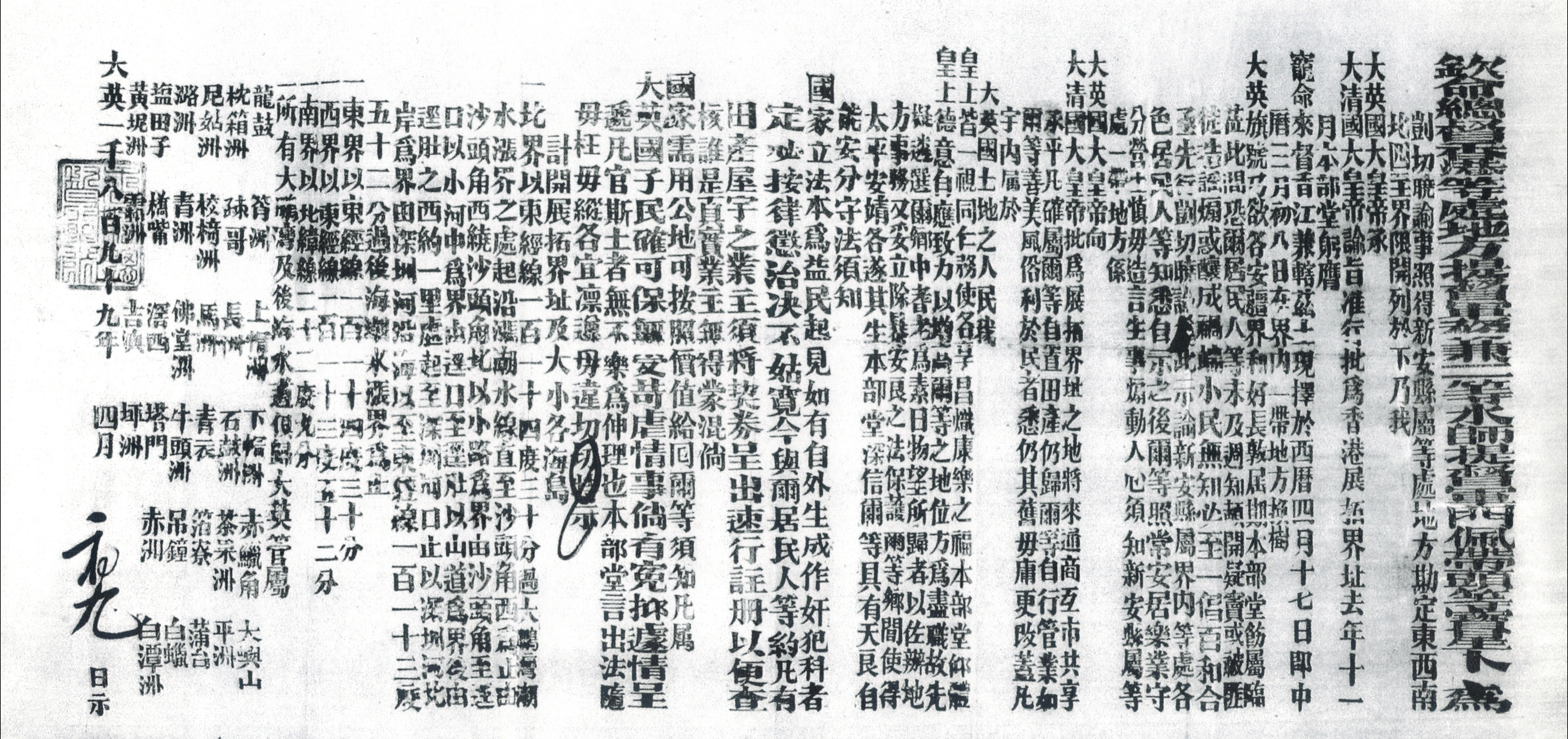 The Proclamation of the New Territories, issued by Sir Henry Blake, the Governor of Hong Kong, on 9th April, 1899 粵語: 係當時香港總督卜嘅告示，公告接收新界，時爲一八九九年四月九號。 欽命總督香港等地方提督軍務兼水師提督軍門佩帶頭等寶星卜，大英一千八百九十九年四月初九日告示。